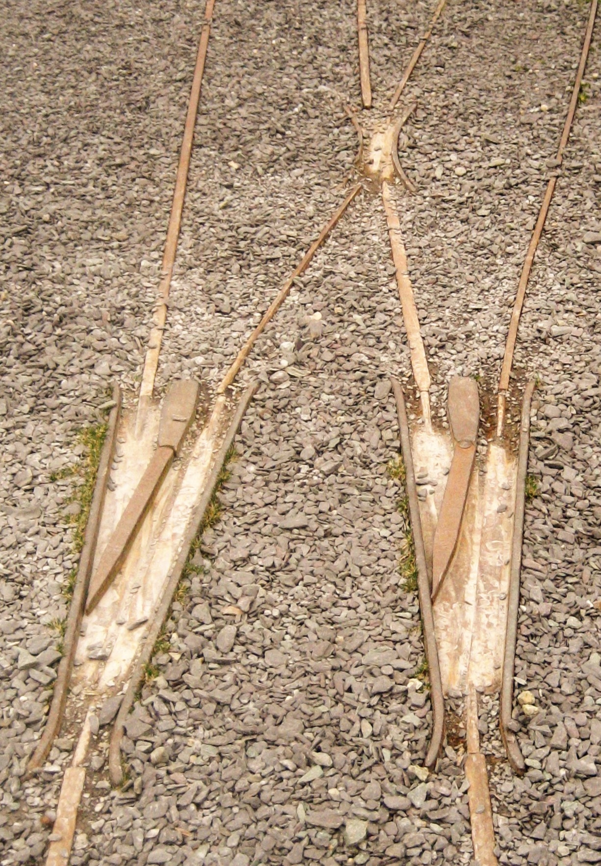 Bar rail plate switch at the Welsh Slate Museum, Llanberis